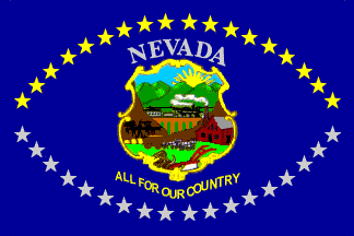 Flag of Nevada 1915